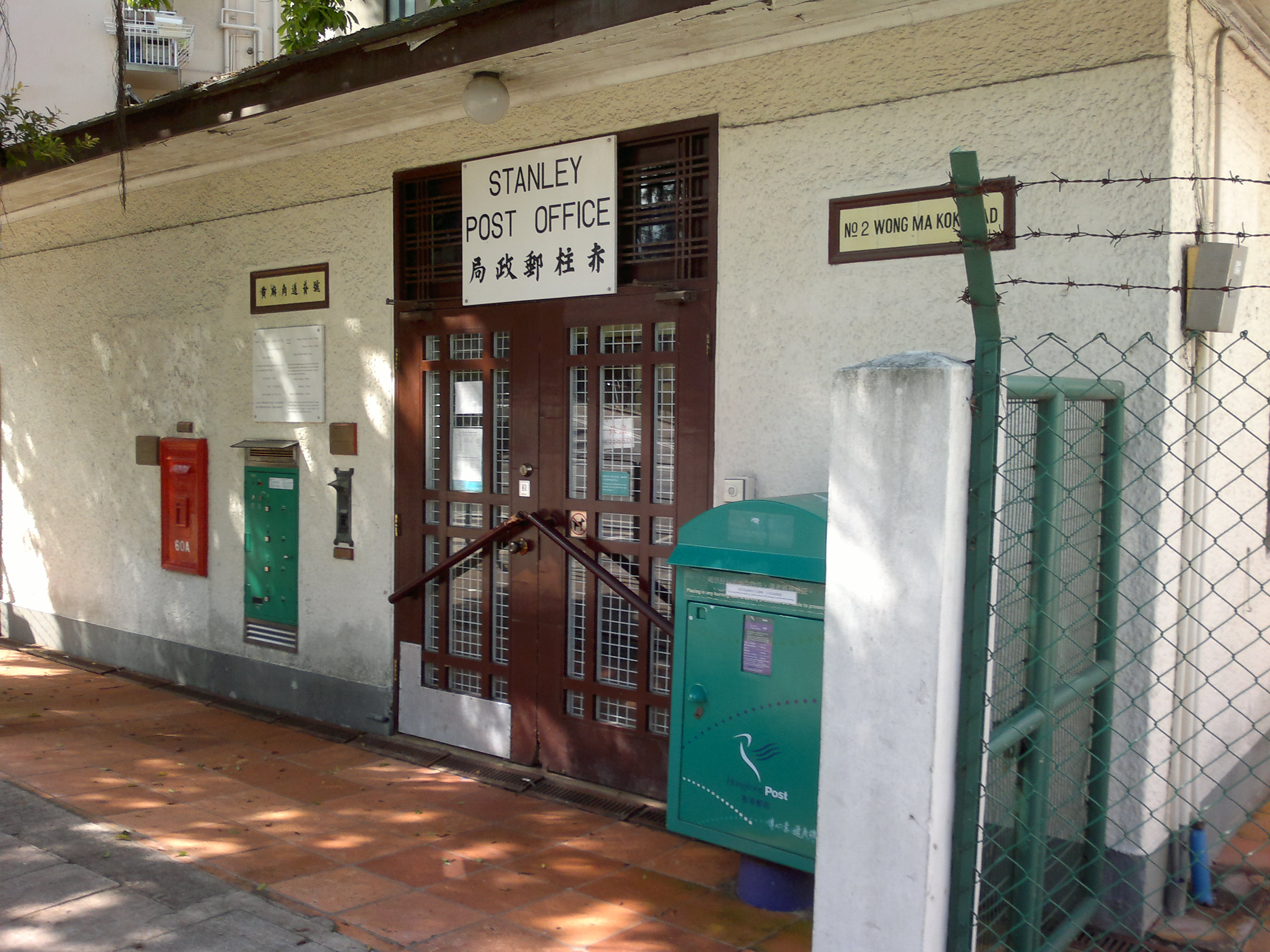 Stanley Post Office Entrance